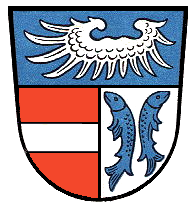 Coat of arms of Kenzingen